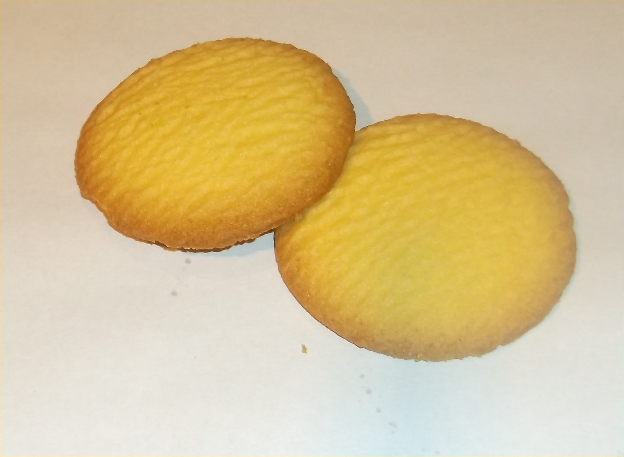 A photo of Morinaga Moon Light Cookie.(a kind of Japanese cookie.)